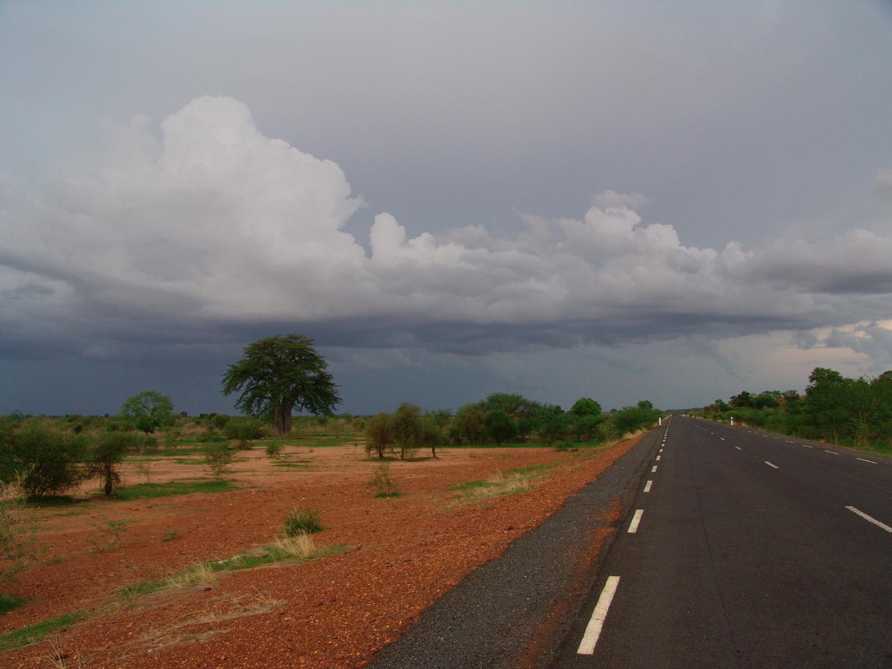 "Road Bamako-Kayes: On the paved part of the road on the way to Kayes." Likely near Kita in the Kita to Kati stretch, as paved section stops between Kita and Bafoulabe, Kayes Region.